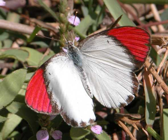 Crimson Tip (Colotis danae) upperside view Photographed in Bangalore, India.